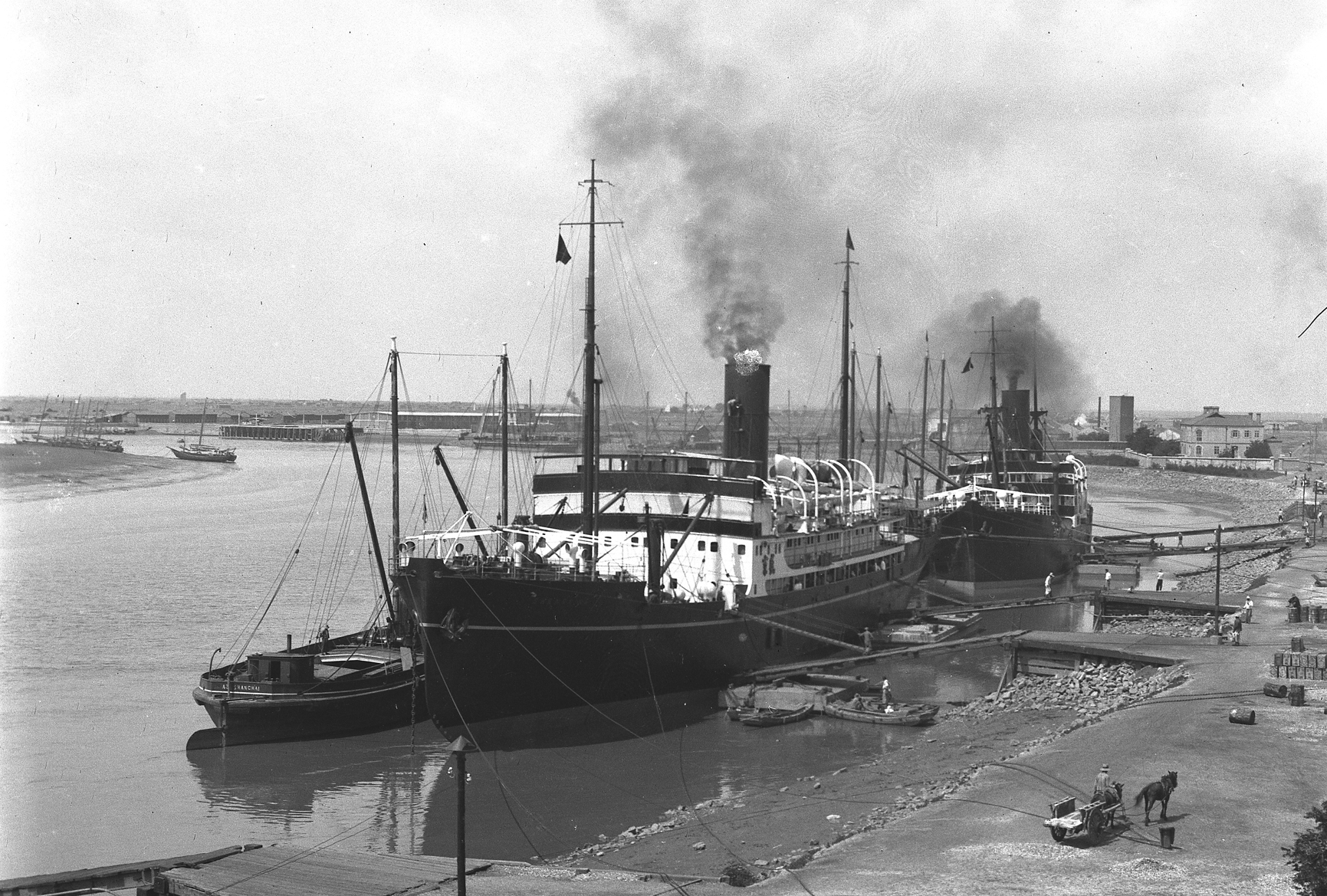 The coastal steamship SS Shengking, built by Scott's of Greenock in 1931 for the China Navigation Company.